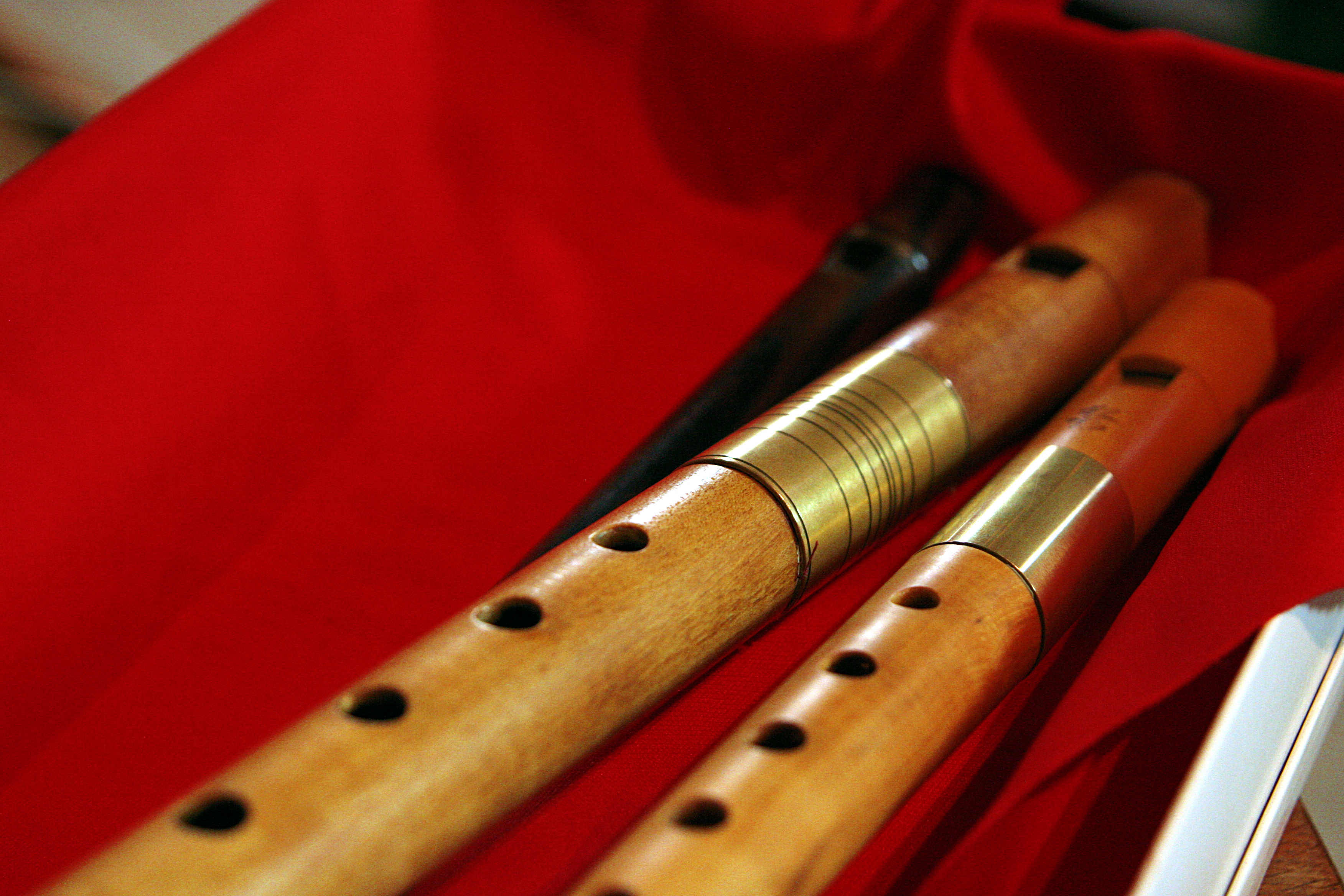 Shot during first ancient music festival in megève